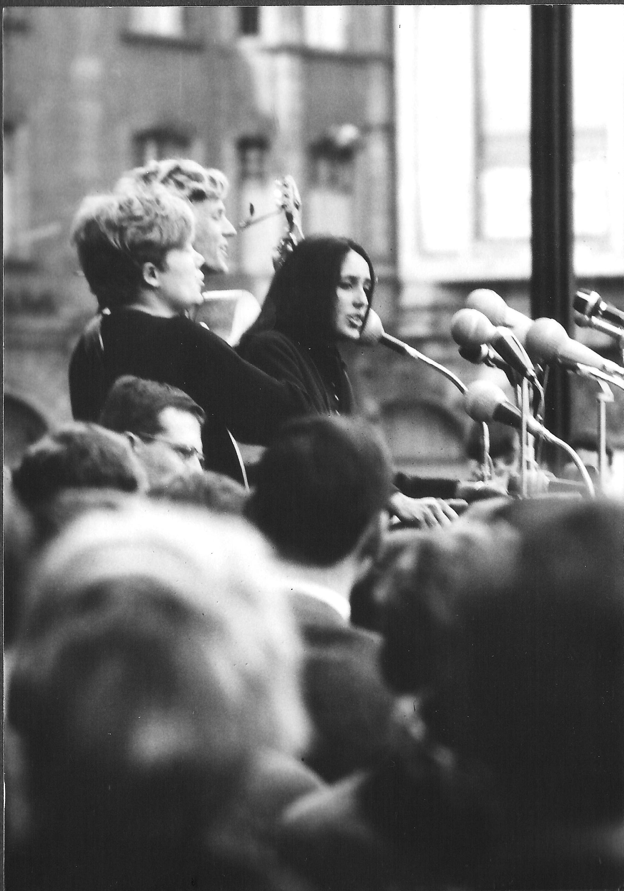 Joan Baez at Ostermarsch 1966 to Frankfurt